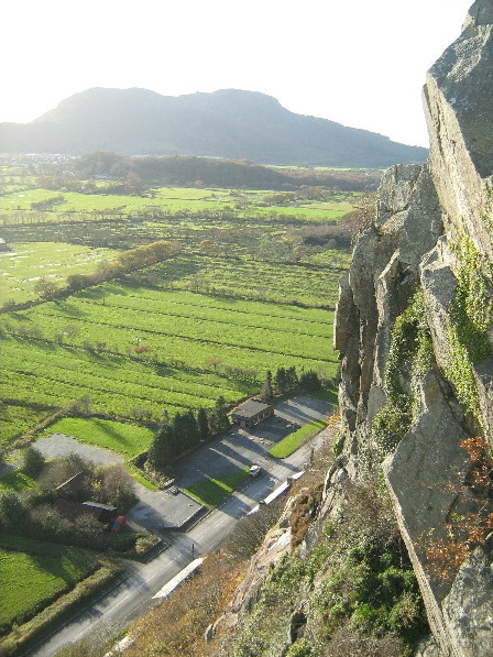 Photo from Craig Bwlch y moch, showing Eric Jones' cafe